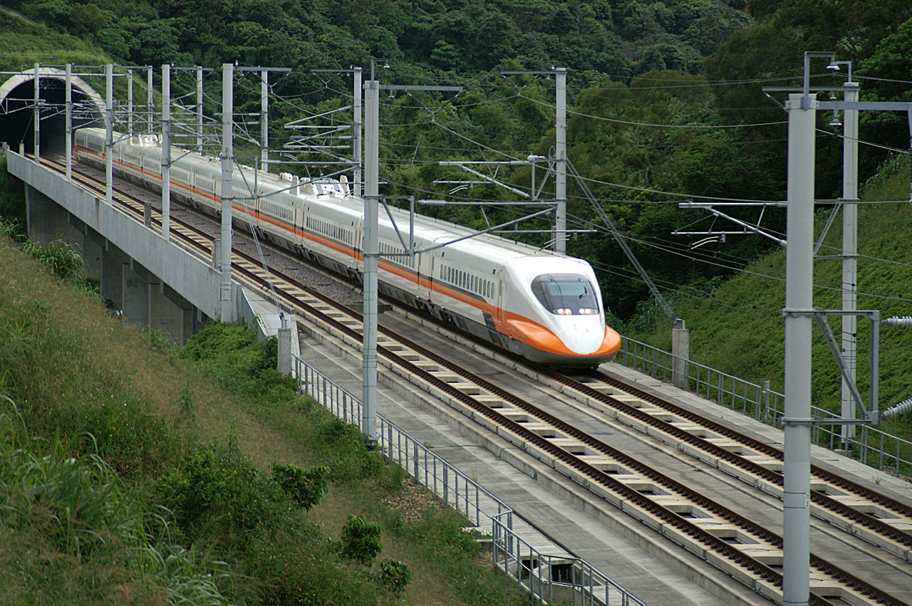 Taiwan High Speed Rail trial run in June 24th, 2006